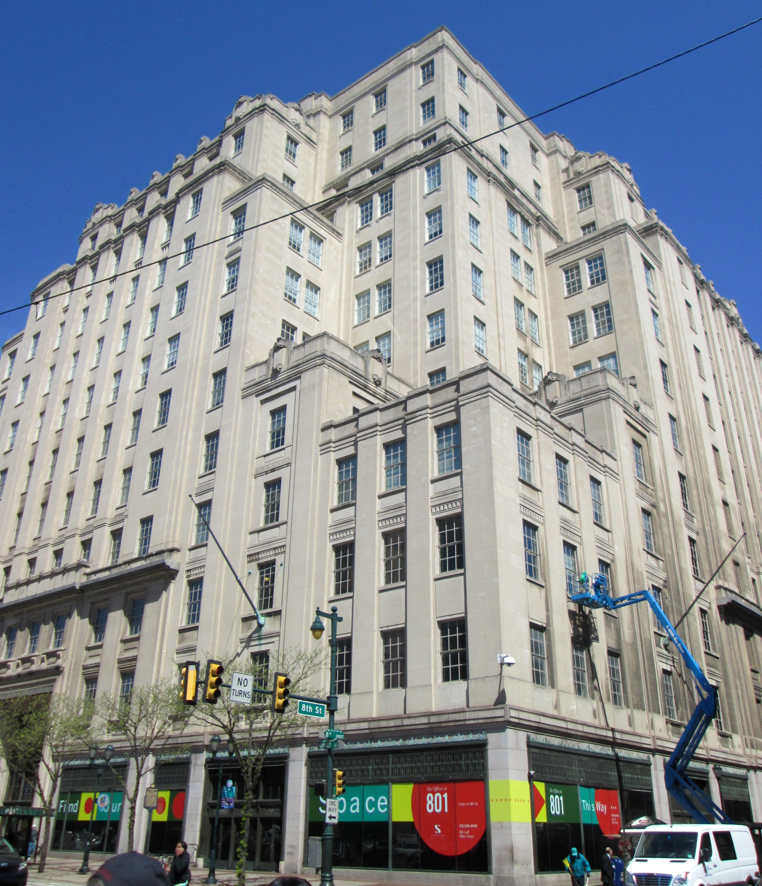 The 1931 Beaux-Arts flagship building designed by Simon & Simon as seen from Market Street and S. 8th Street in Center City, Philadelphia.